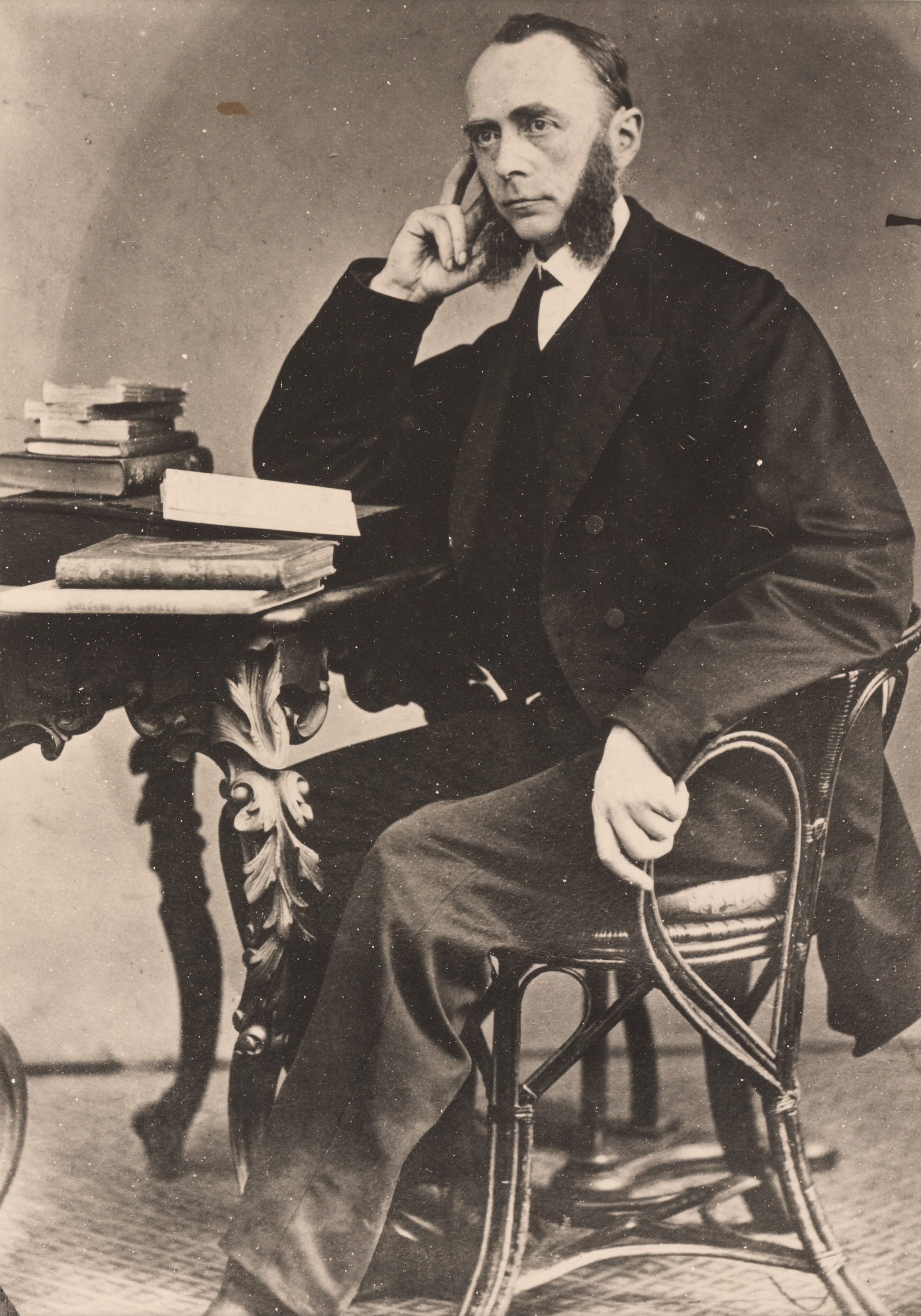 Tiberius Cornelius Winkler (1822-1897), paleontology curator of Teylers Museum from 1864-1897. Winkler was the first to translate the works of Charles Darwin into Dutch.